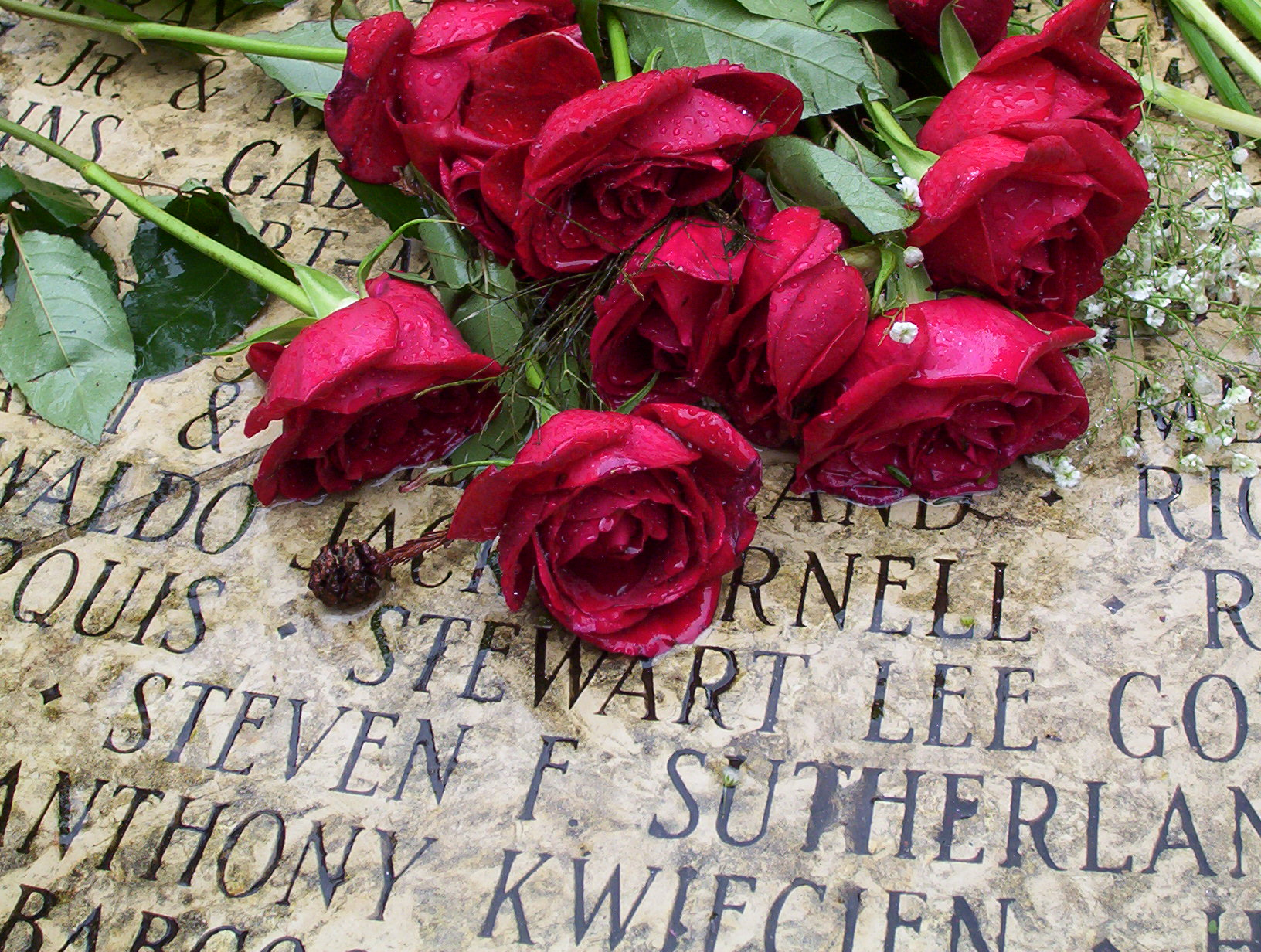 National Aids Memorial Groove in SF